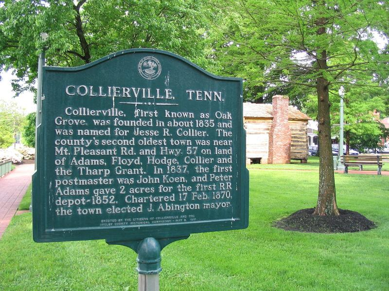 A small sign in Collierville's Historic Town Square depicting the early history of the town.